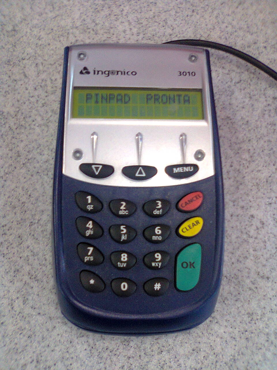 POS equipment accessory